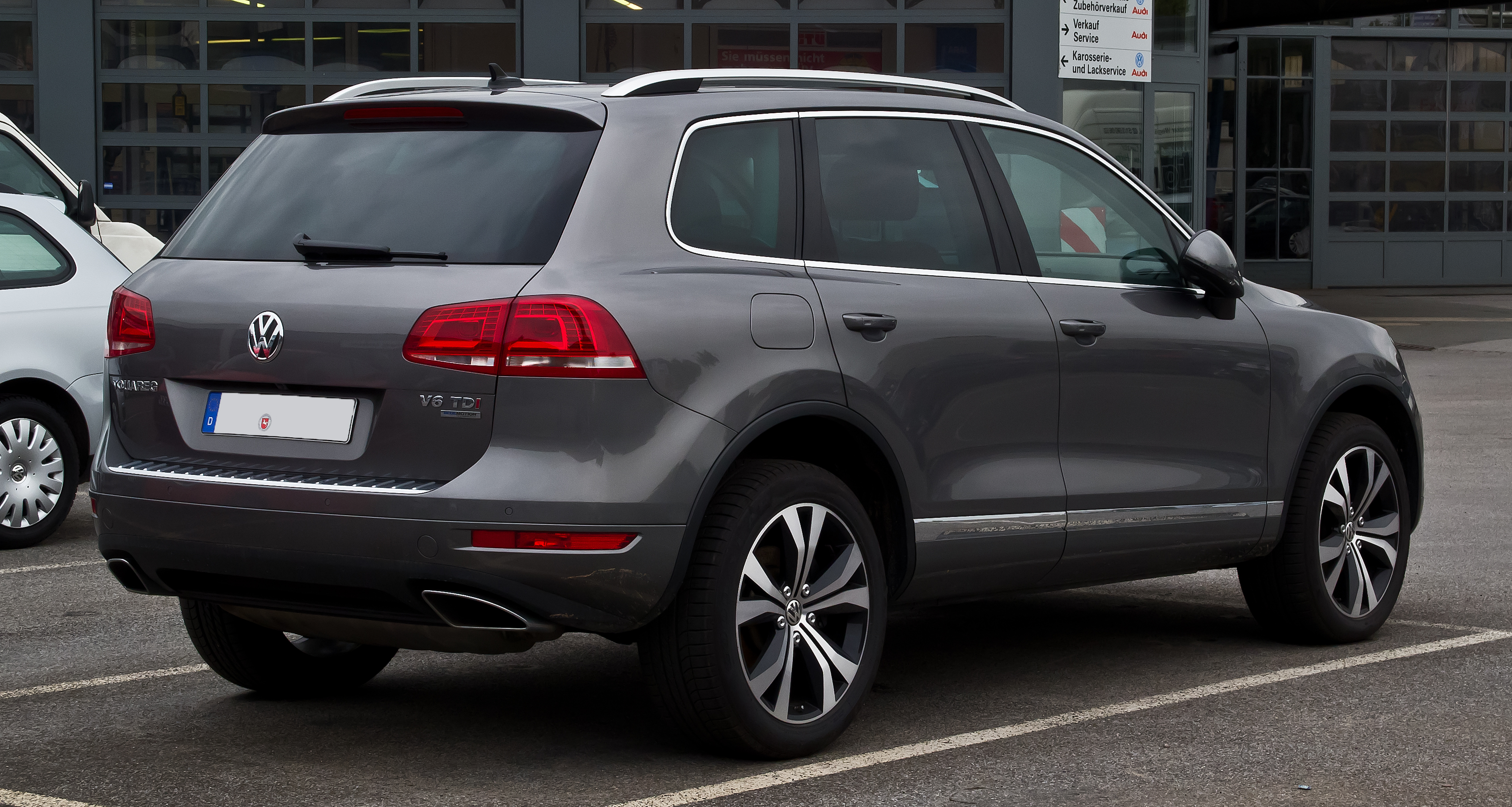 VW Touareg Exclusive V6 TDI BlueMotion Technology (II)